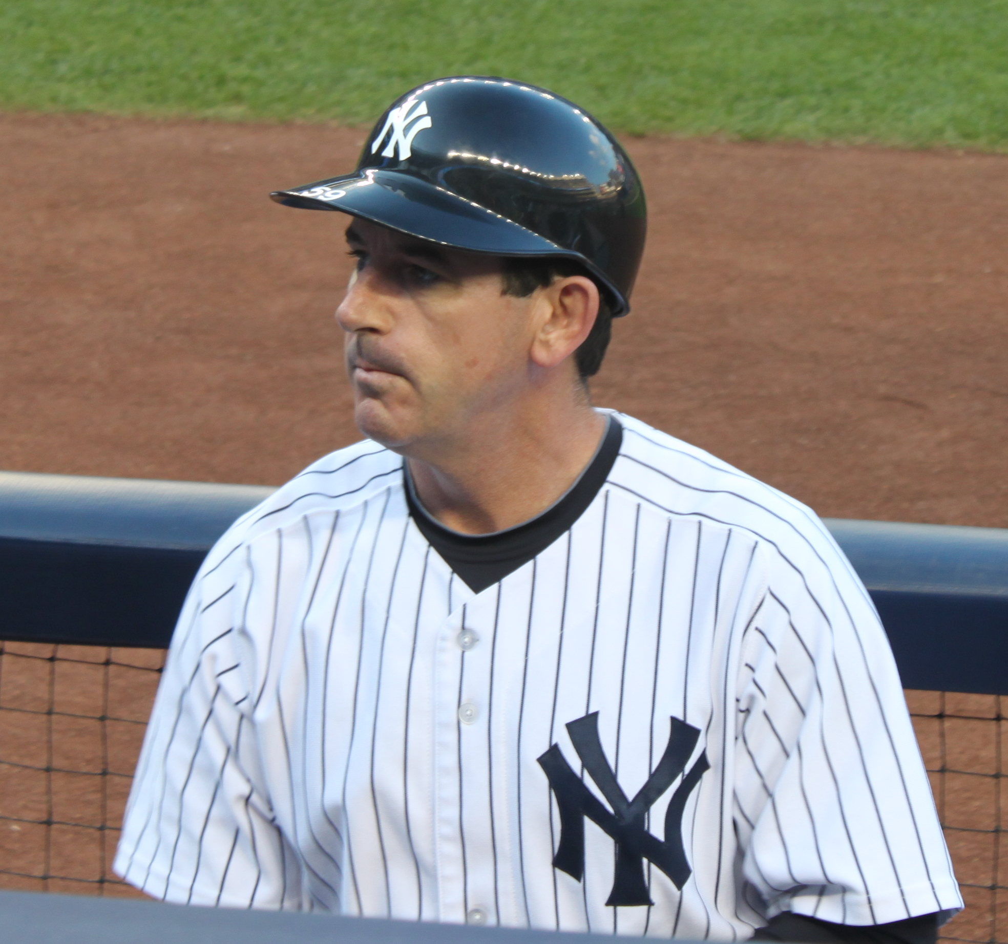 New York Yankees 3rd base coach Rob Thomson at Yankee Stadium, 2011.